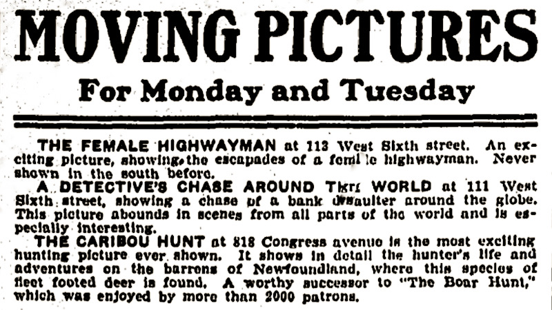 Newspaper advertisement for "MOVING PICTURES Monday and Tuesday" presented at three different locations [theaters] in Austin, Texas in 1907; published in The Austin Daily Statesman, June 10, 1907, p. 8; films cited to be shown: "The Female Highwayman", "Detective's Chase Around [the] World", and "The Caribou Hunt".